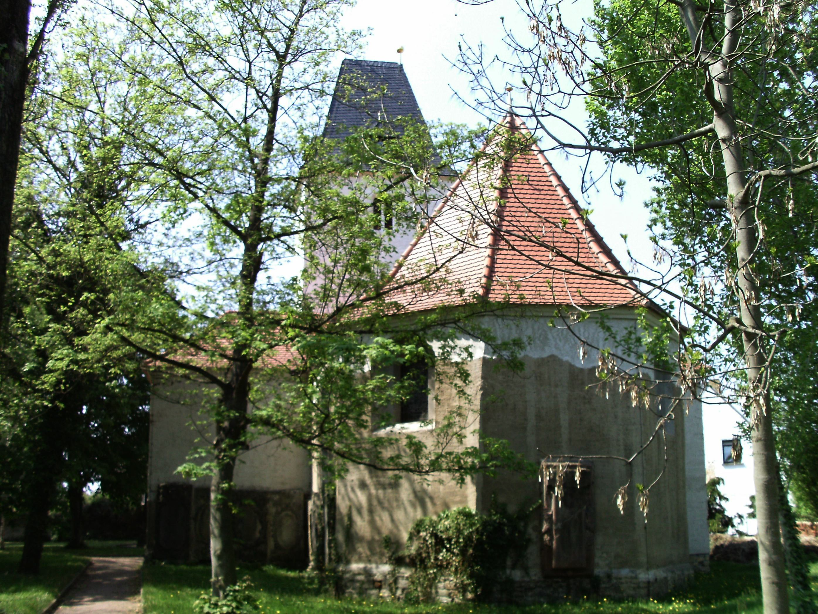 Wallendorf Church (Schkopau, district of Saalekreis, Saxony-Anhalt) from the east